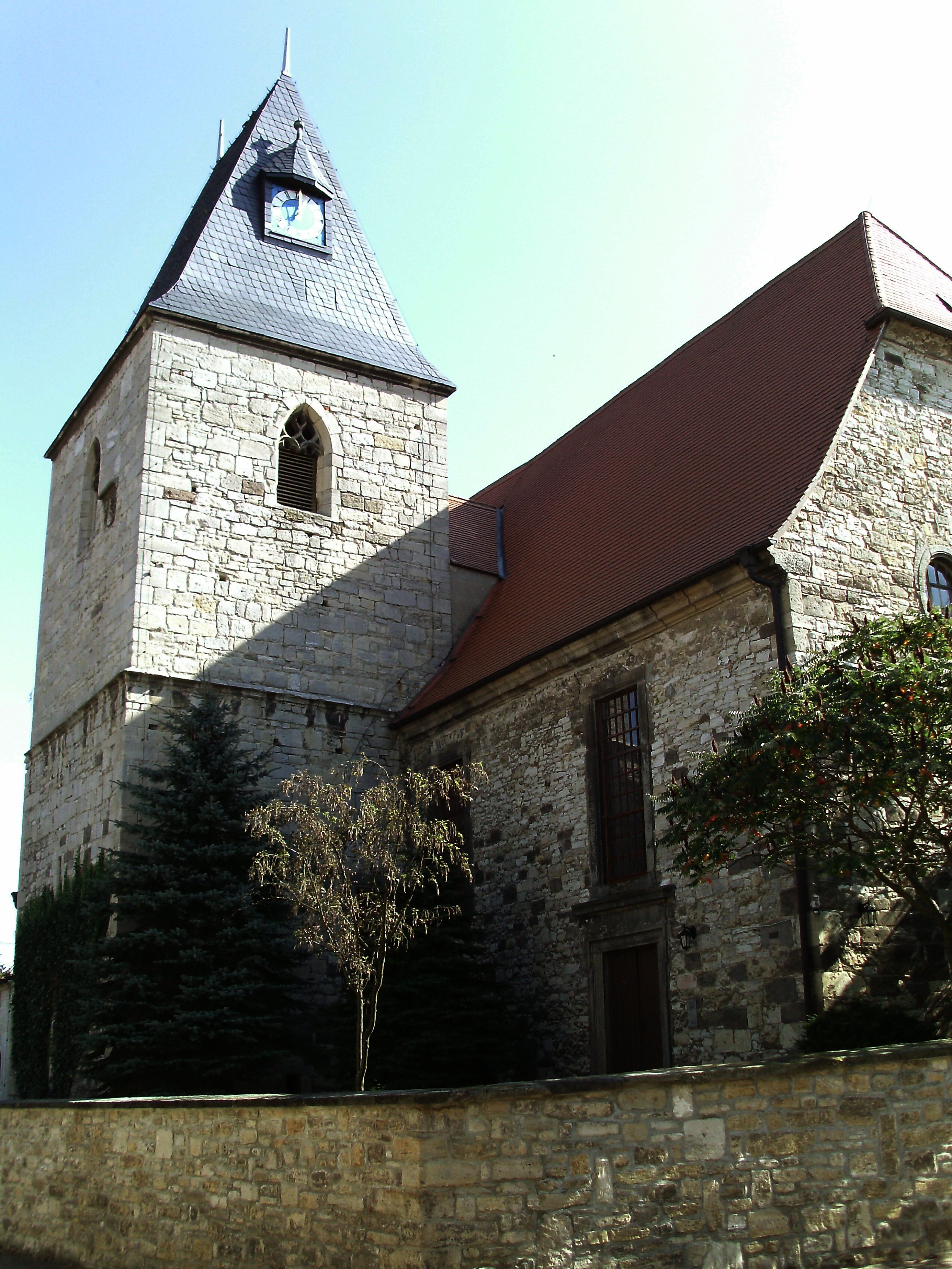 Trinity Church in Gleina (district of Burgenlandkreis, Saxony-Anhalt), view form the north-west